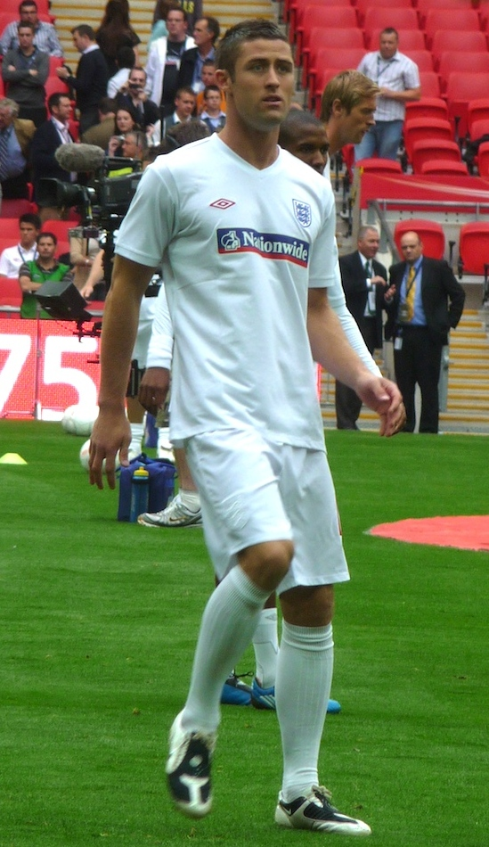 Gary Cahill